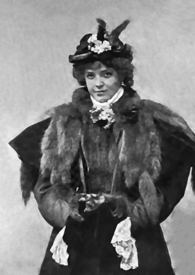 Actress Marie Shotwell circa 1897